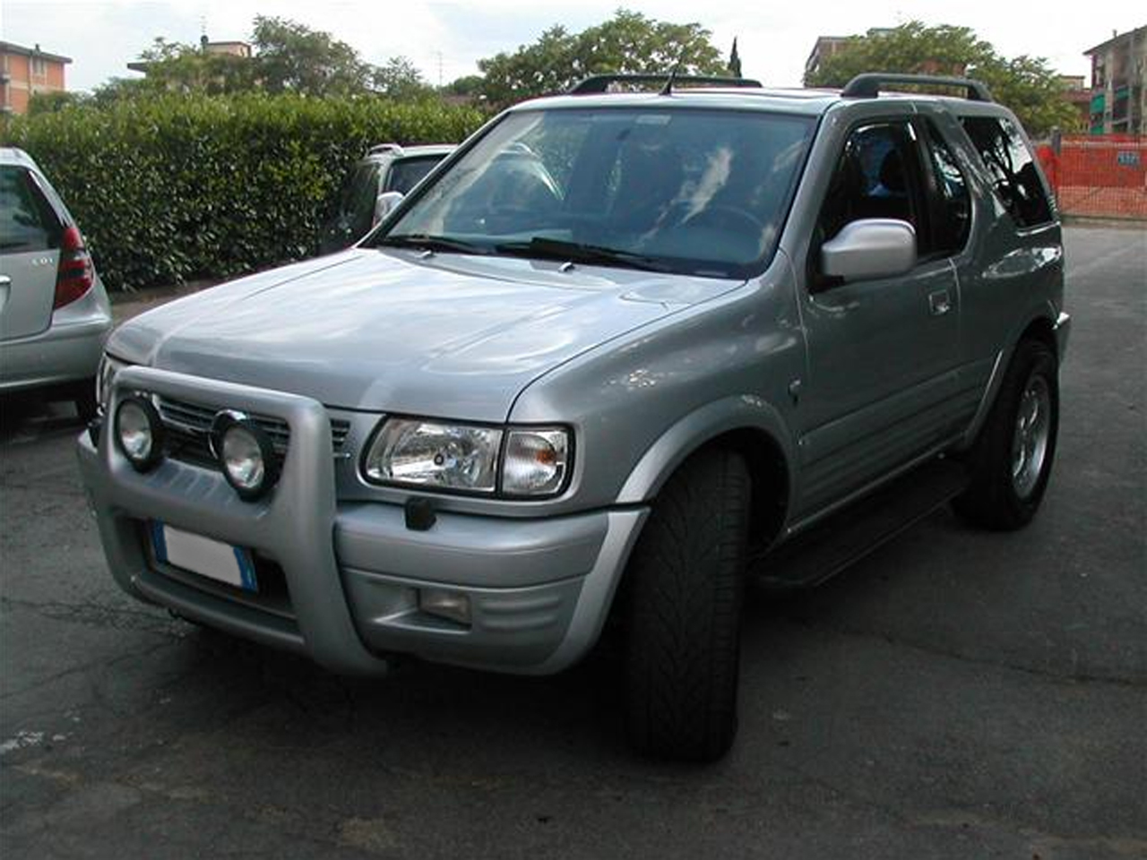 Developed by Isuzu